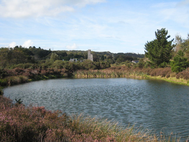 Pond in Bissoe Valley Nature Reserve In the distance can be seen the remains of Point Mills Arsenic Refinery. Bissoe Valley Nature Reserve was donated to the Cornwall Wildlife Trust by Carrick District Council in 2000.